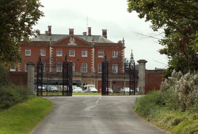 Orwell Park School It was built in 1770 and much altered and added to in 1854. It became a school in 1936 and this picture shows the main entrance.